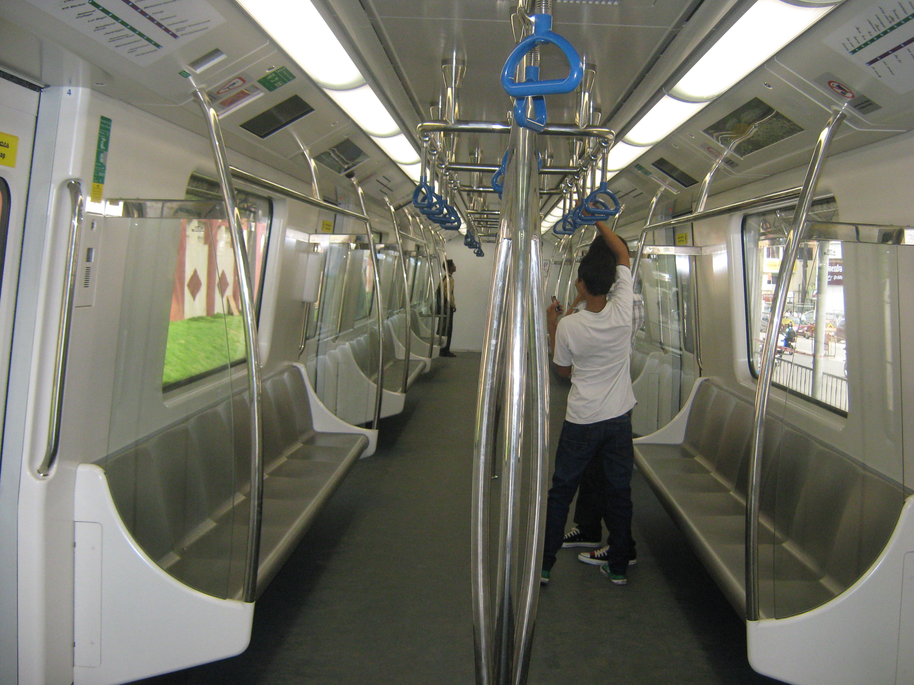 Photo of the interior of the Bangalore Metro mockup kept for public viewing in MG Road.